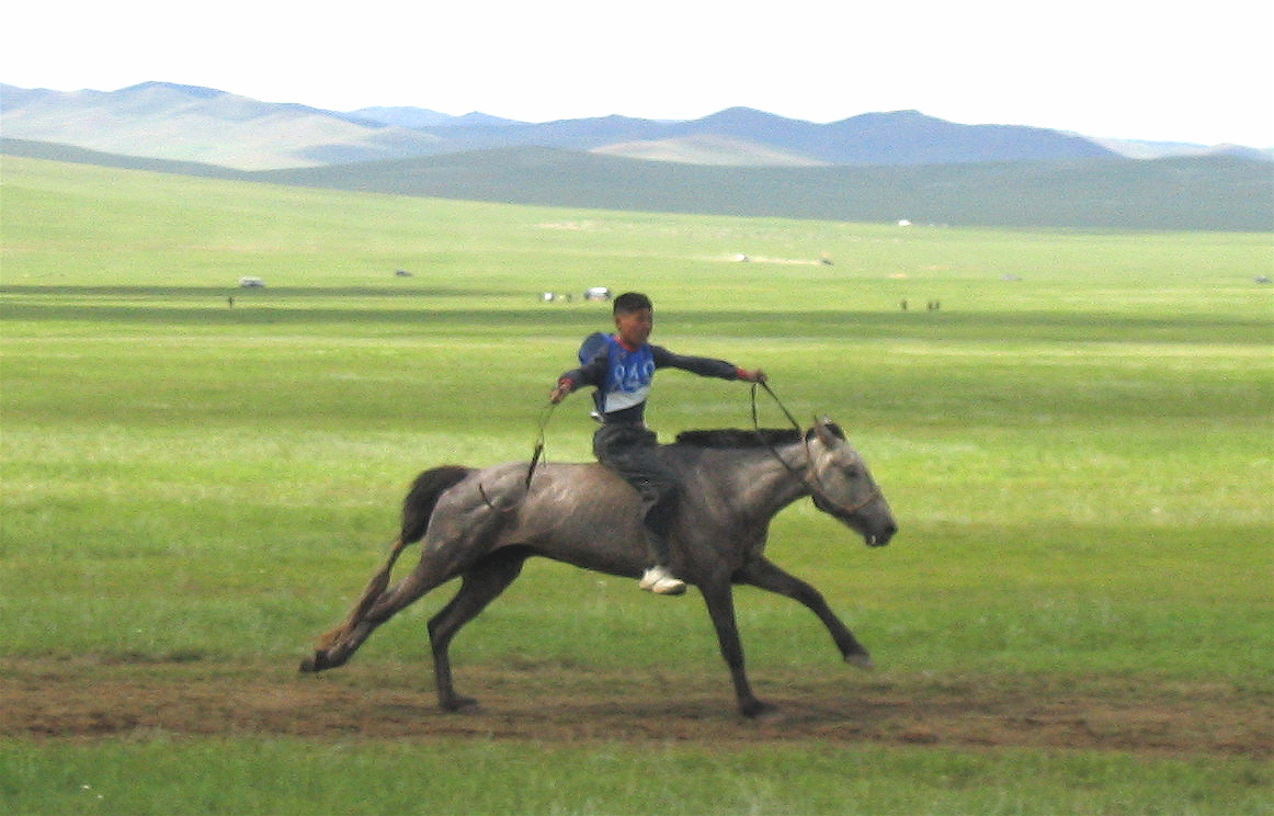 Young boy riding a horse in the Naadam horse race in Mongolia